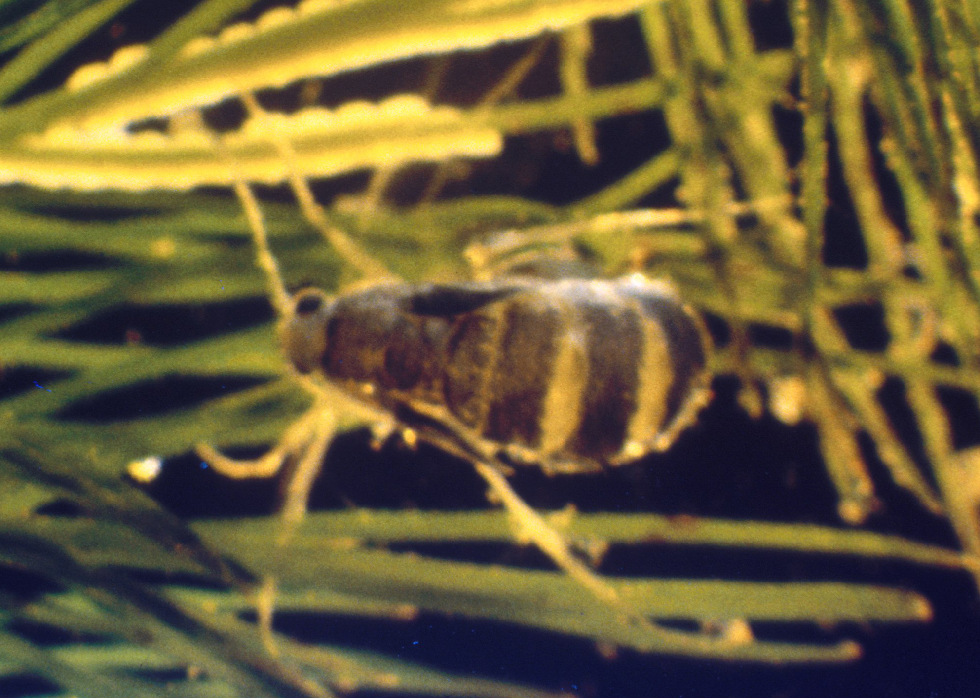 Acentria ephemerella Denis &. Schifferm�ller, 1775 Host: Eurasian watermilfoil Myriophyllum spicatum Linnaeus Common Name: milfoil moth Photographer: Robert L. Johnson, Cornell University, United States Descriptor: Adult(s) Description: wingless female and eggs at Cornell University Research Ponds Image taken in: New York, United States